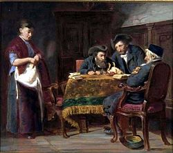 Isaac Meijer de Haan, 1880